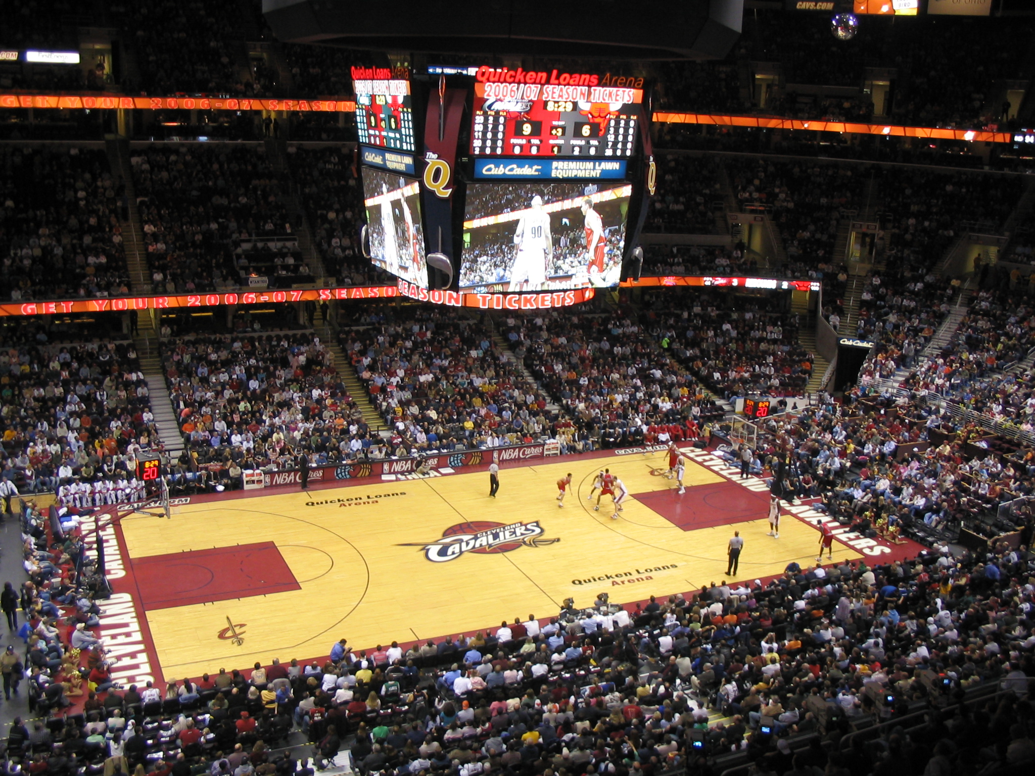 Taken 3/5/2006: Cleveland Cavaliers vs. Chicago Bulls CyberTootie, the copyright holder of this work, hereby publishes it under the following license: Attribution: CyberTootie